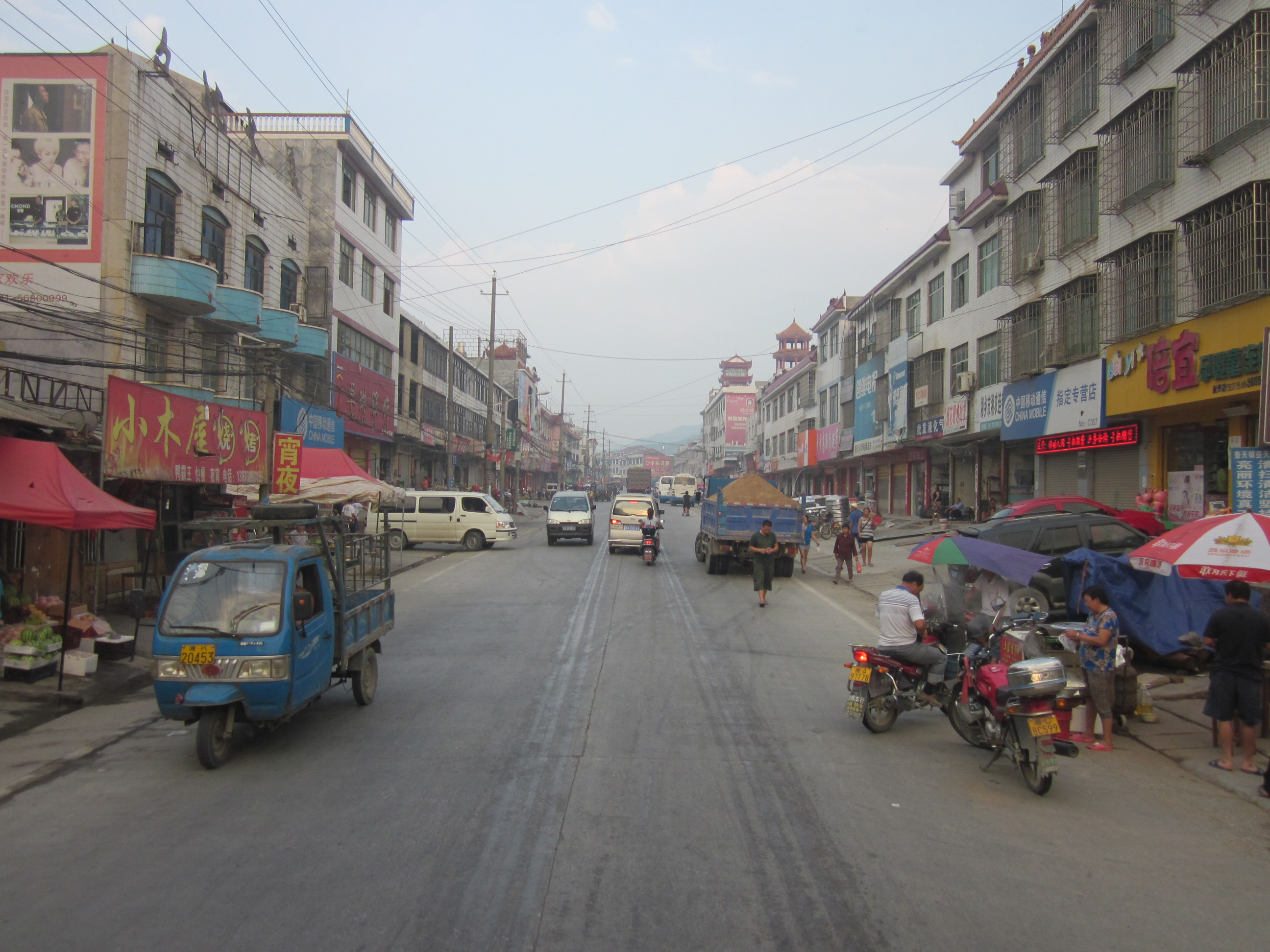 Hutian Town(simplified